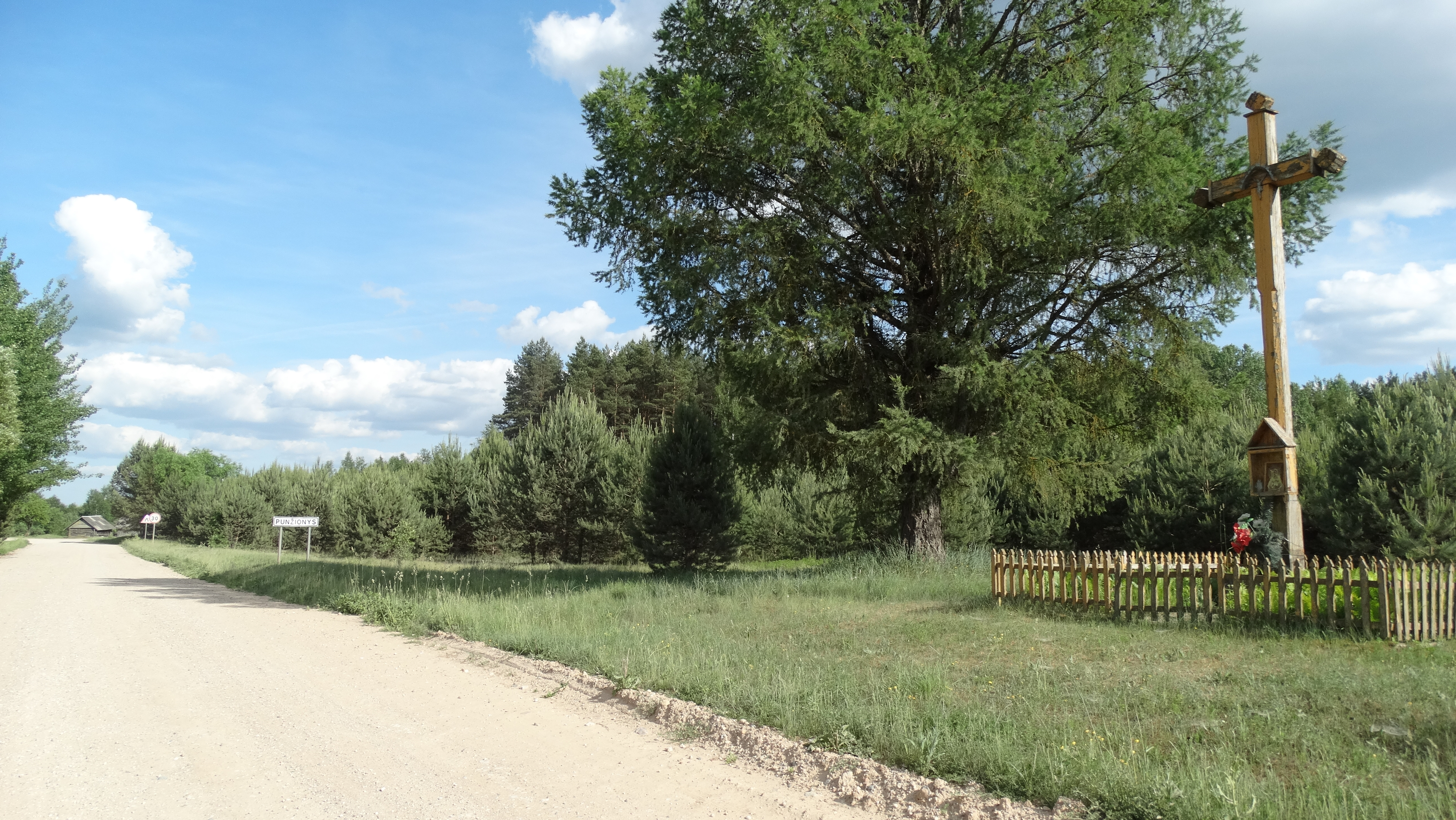 Punžionys, Švenčionys District, Lithuania